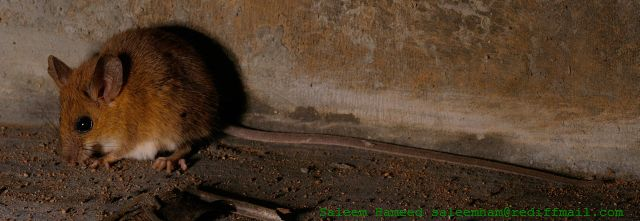 Longtailed tree mouse, Bannerghatta, India